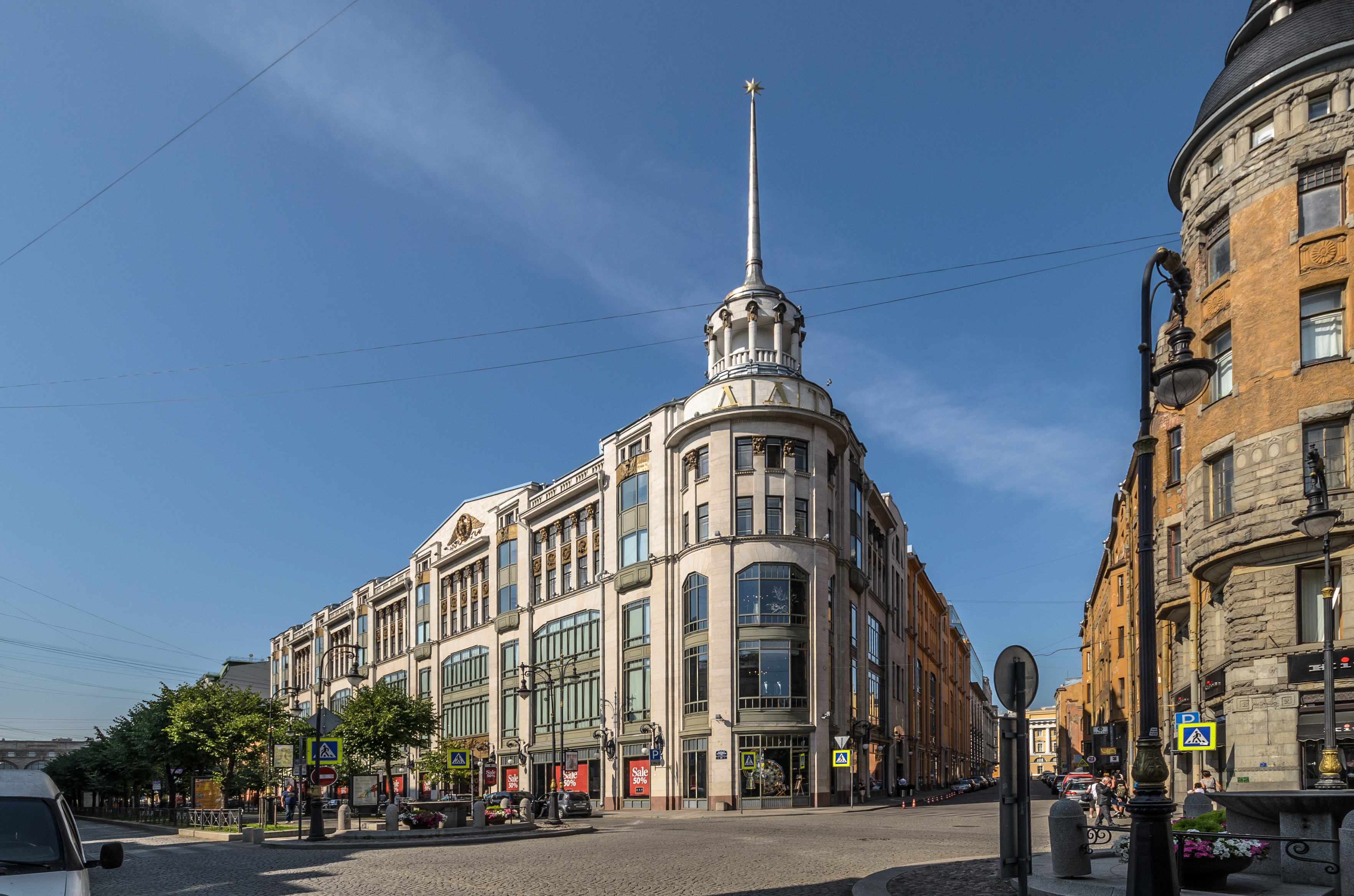 "DLT" Department Store at Bolshaya Konushennaya Street in Saint Petersburg